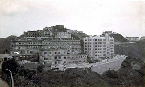 1930s of Victoria Peak, Victoria Gap. 中文（香港）: 1930年代香港太平山爐峰峽的山頂酒店及山頂大廈